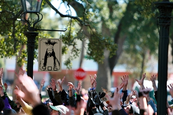 Outstretched hands during visit of Cain's Merry Widows to Joe Cain's house on Augusta Street in Mobile, Alabama.